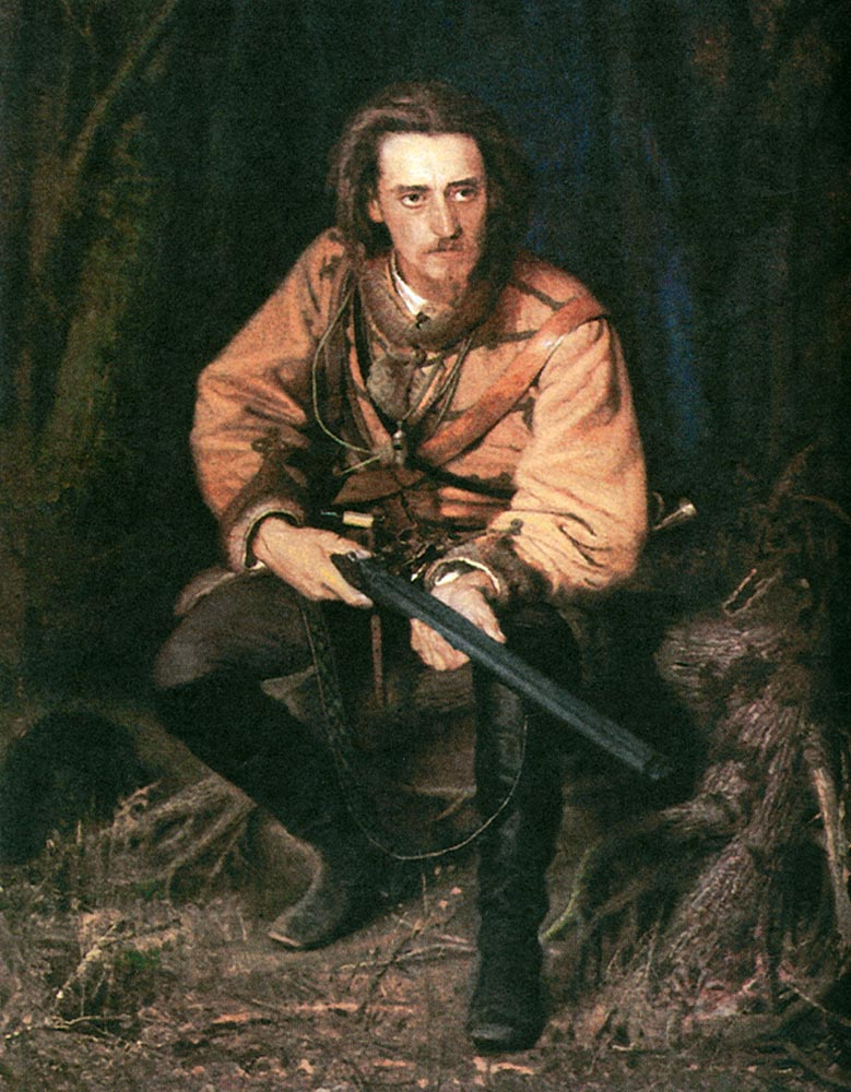 Hunter waiting for a beast (painting by Ivan Kramskoi, 1869)